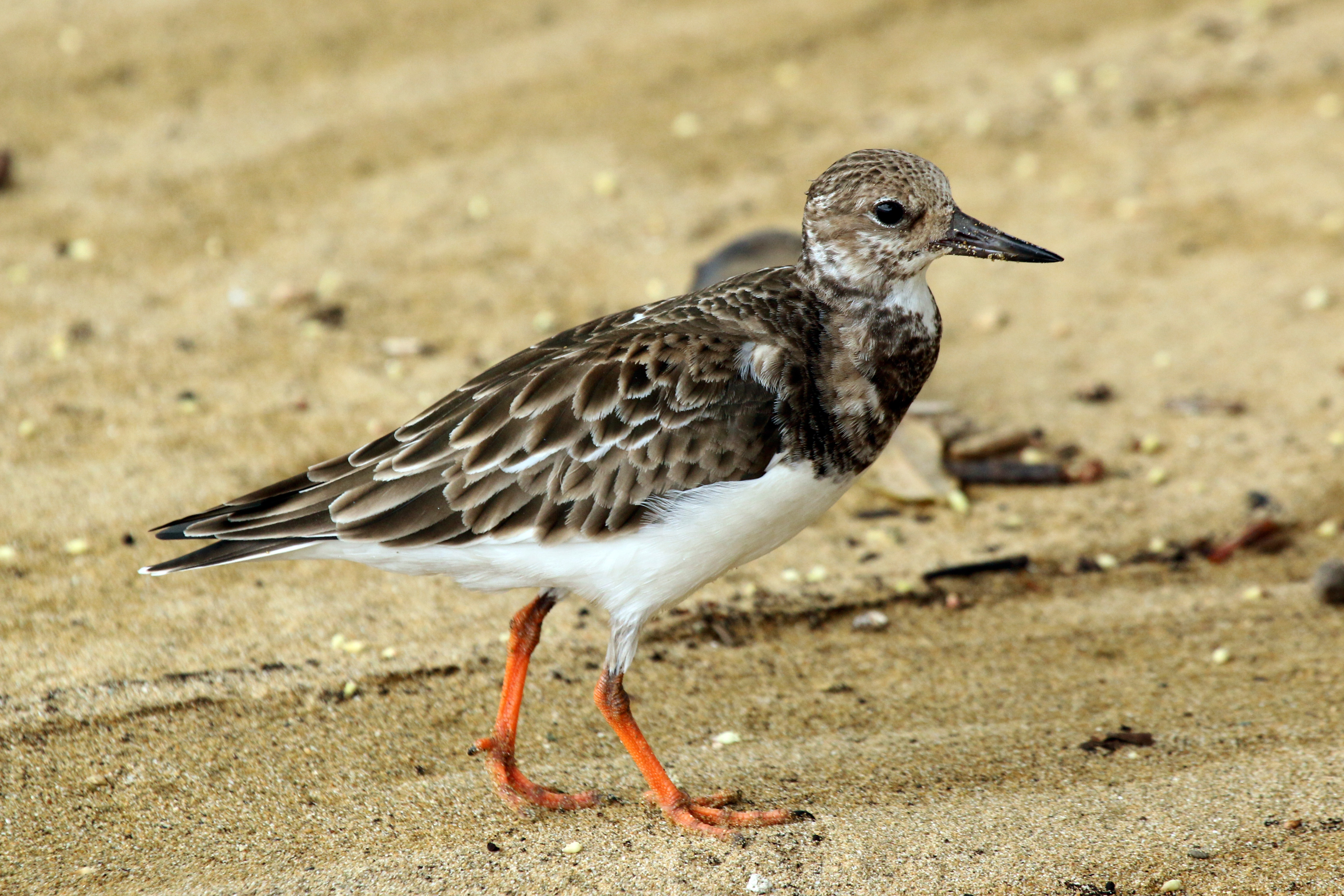 Ruddy turnstone (Arenaria interpres morinella), Tobago